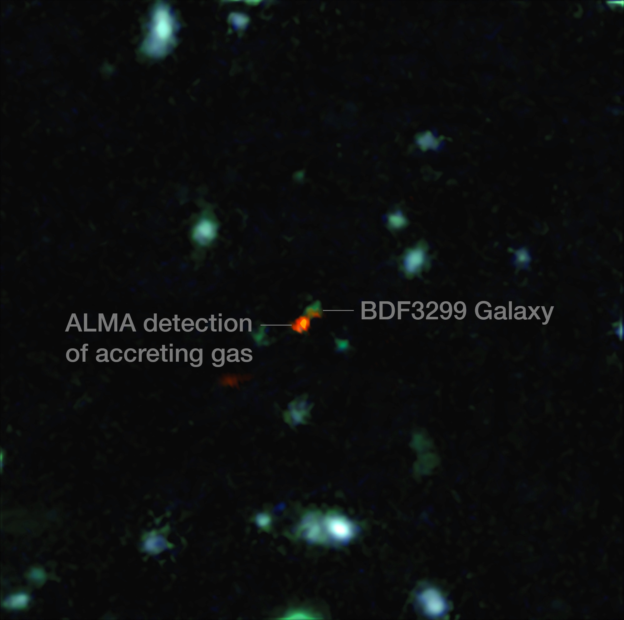 This view is a combination of images from ALMA and the Very Large Telescope. The central object is a very distant galaxy, labelled BDF 3299, which is seen when the Universe was less than 800 million years old. The bright red cloud just to the lower left is the ALMA detection of a vast cloud of material that is in the process of assembling the very young galaxy.